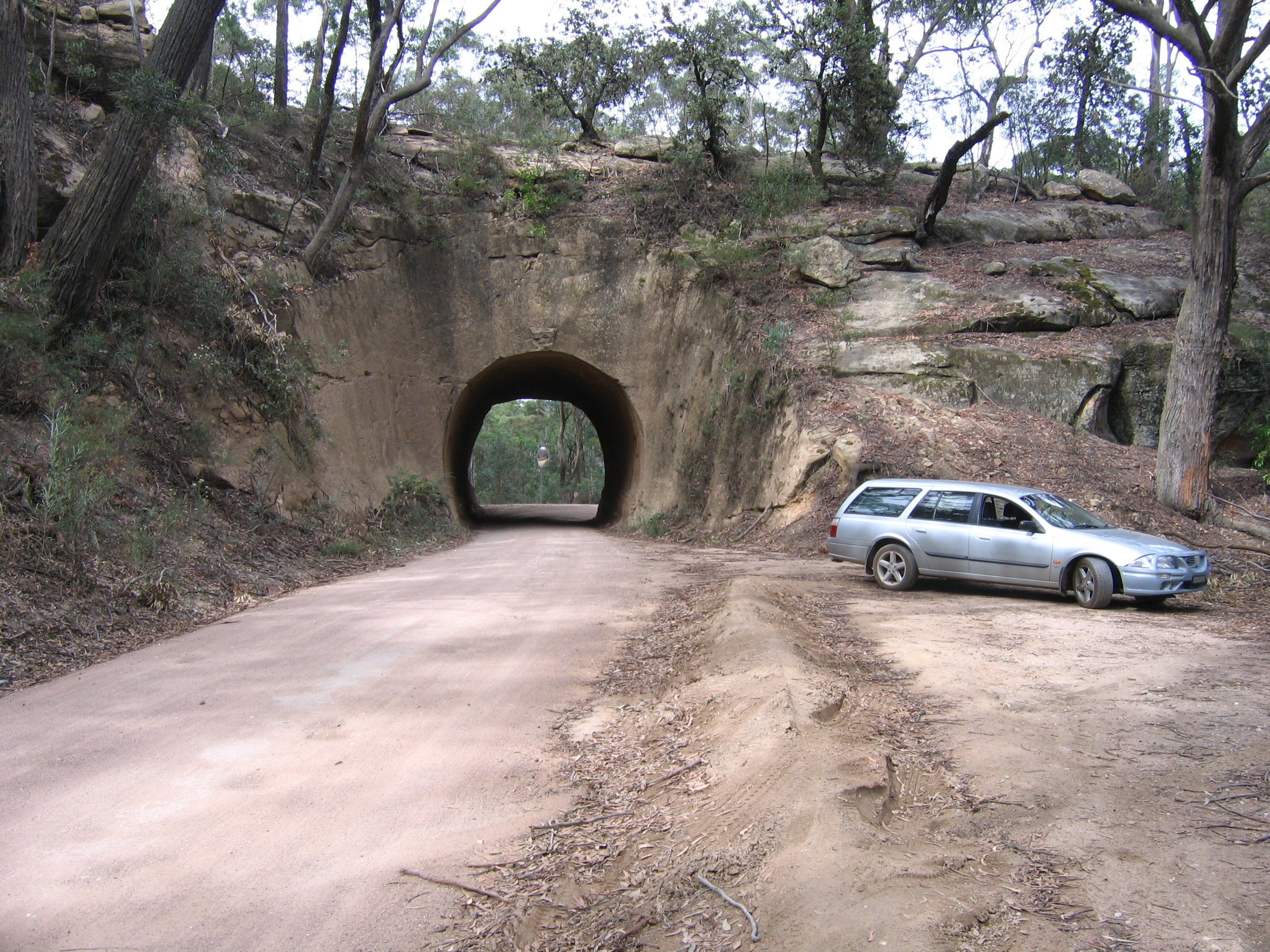 Tunnel on Wombeyan Caves Road, viewed from eastern side. Car in photo to establish scale.